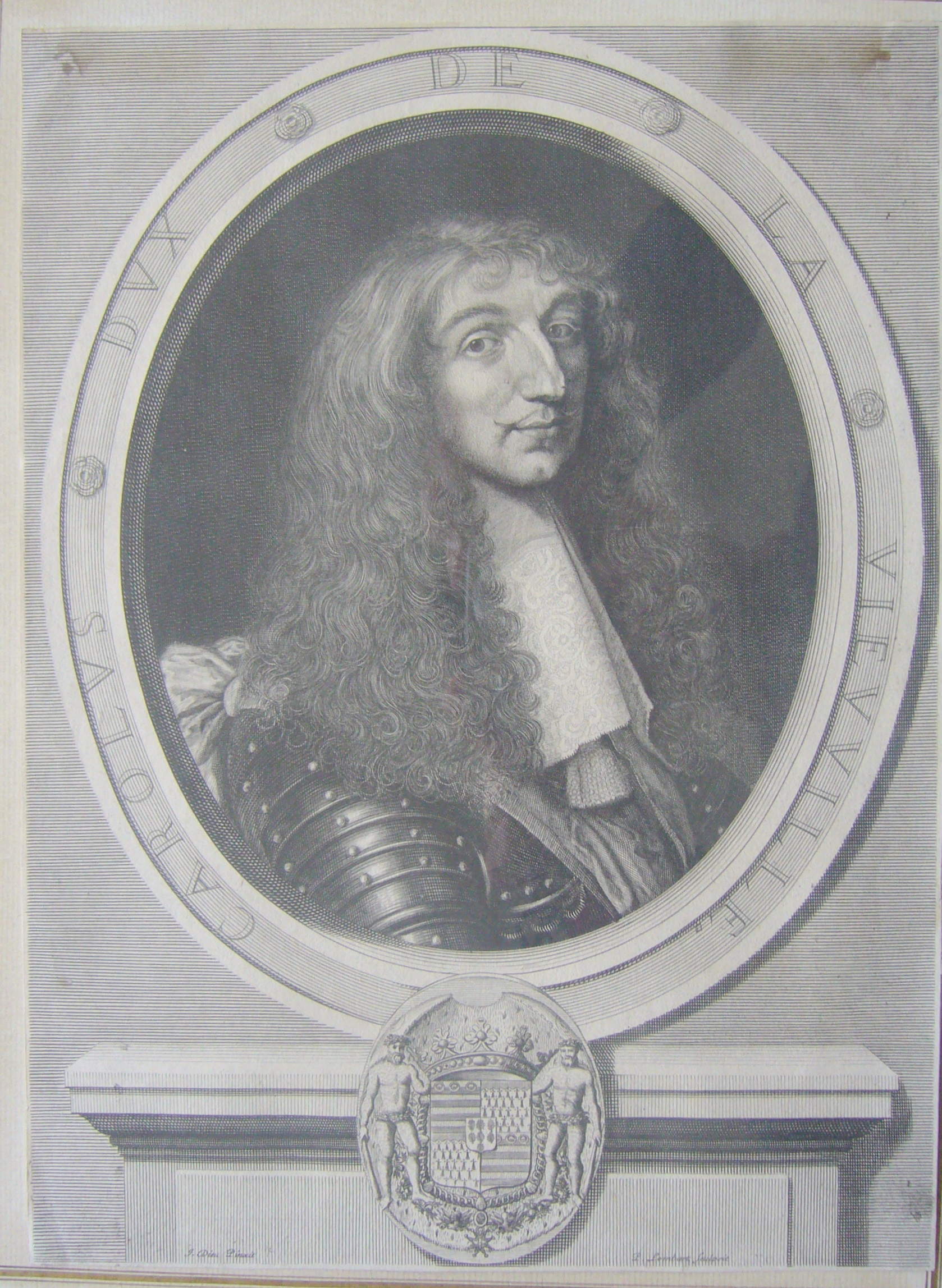 Charles II de la Vieuville